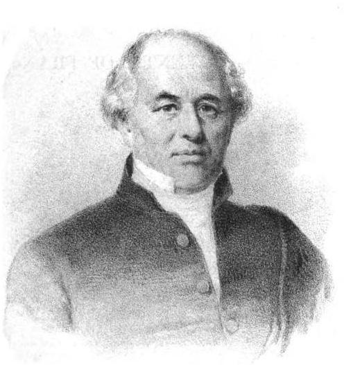 "The Rev. Eleazar Williams, From a Portrait by the Chevalier Fagnani."